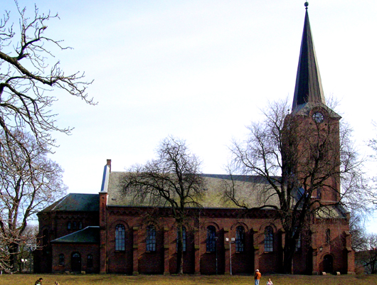 Sofienberg church, Oslo. Built 1877. Architect: Jacob Wilhelm Nordan.